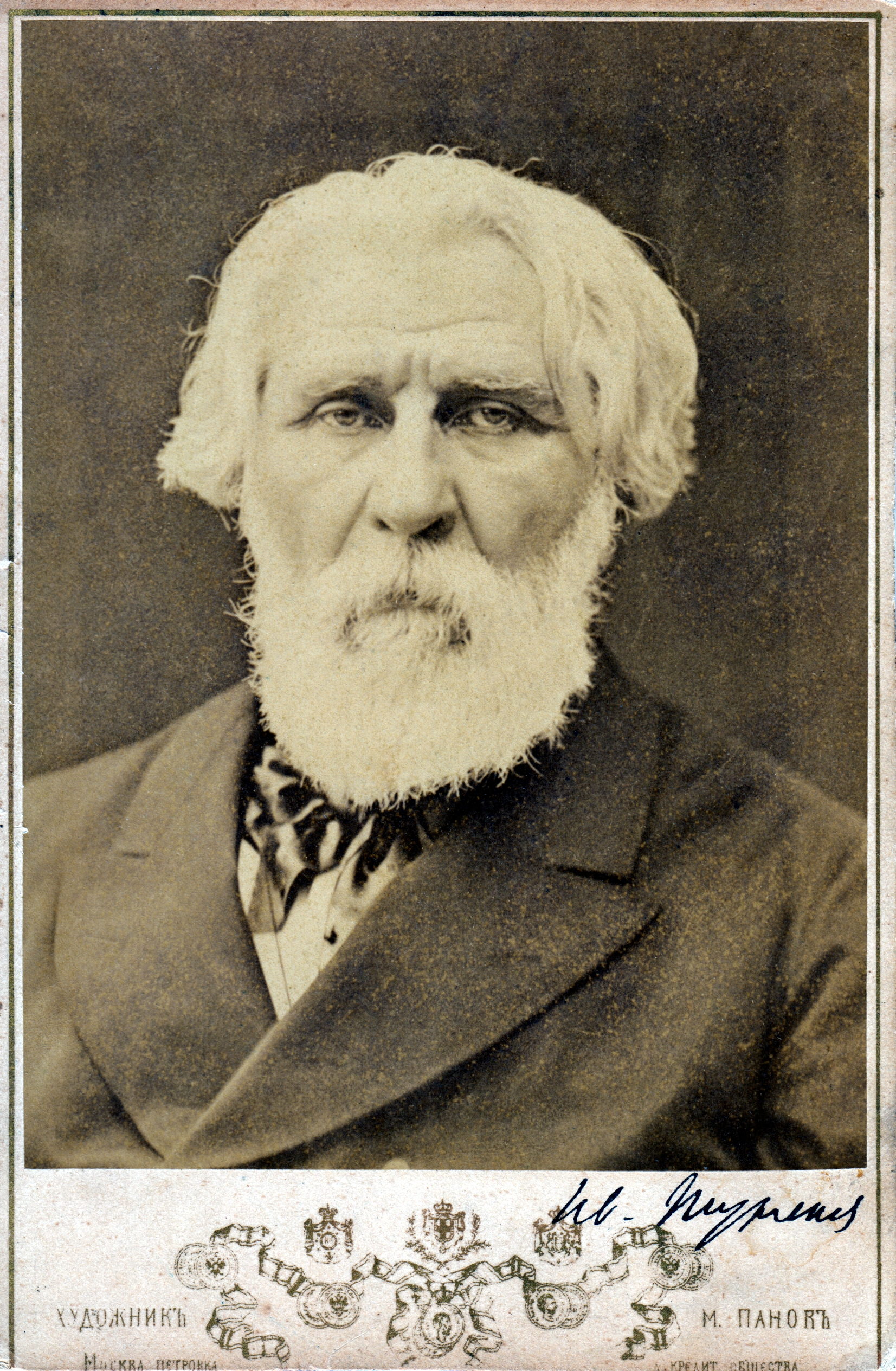 Ivan Turgenev, photo in Moscow